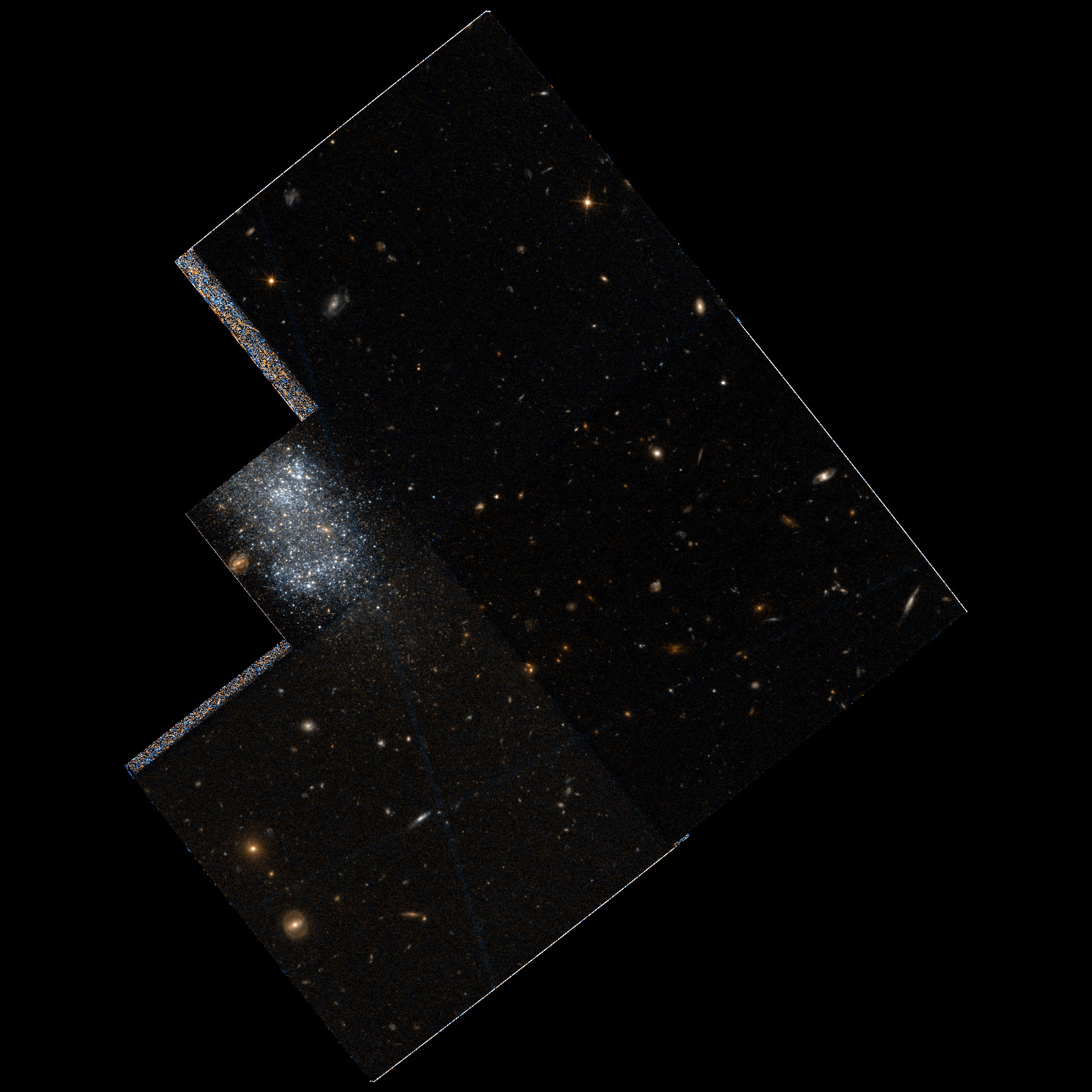 Color rendering is done by by Aladin-software (2000A&AS..143...33B.)